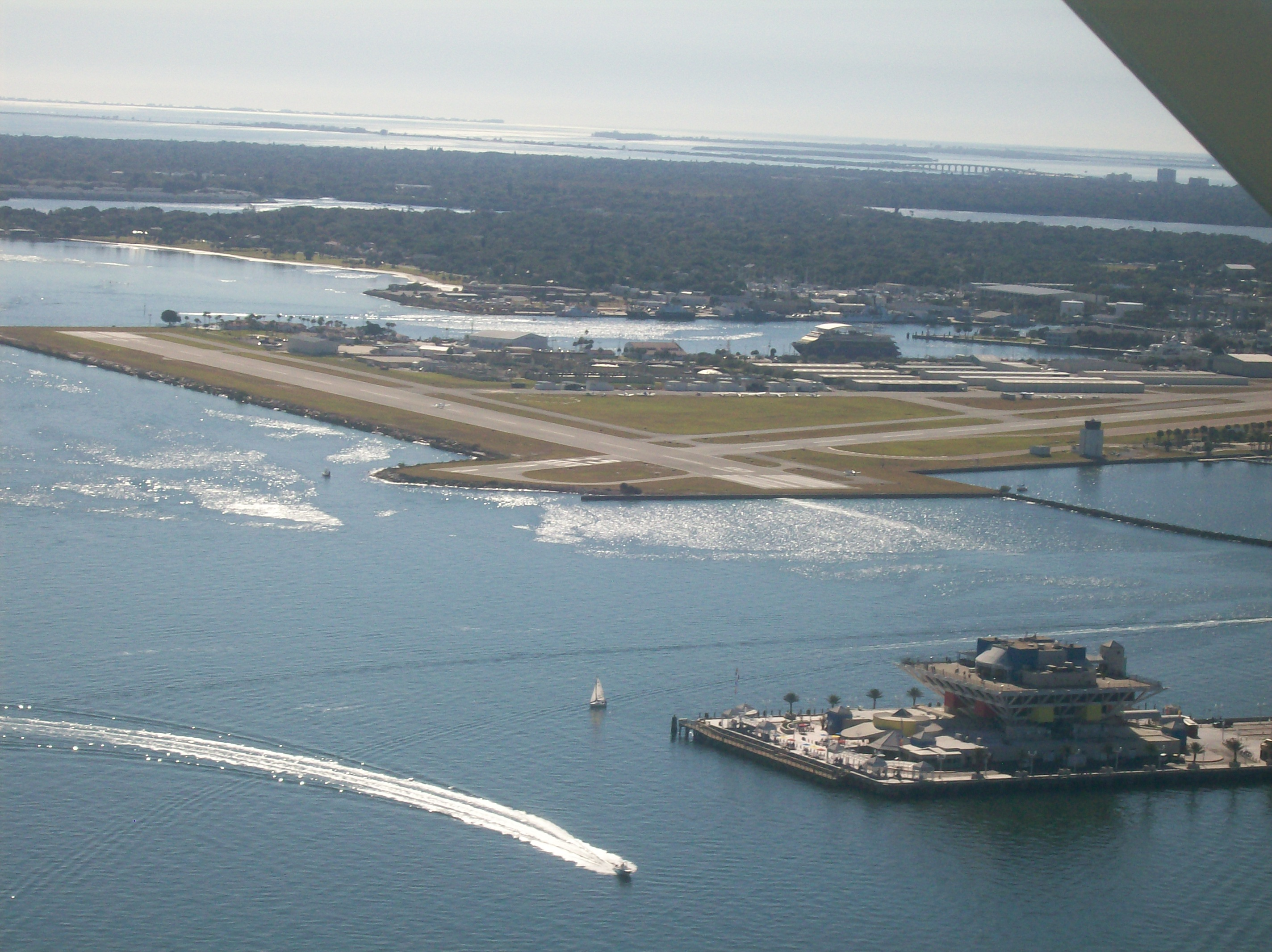 Aerial Photo of Albert Whitted Airport, St. Petersburg, Florida USA